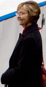 2010 Cup of Russia, free skating.